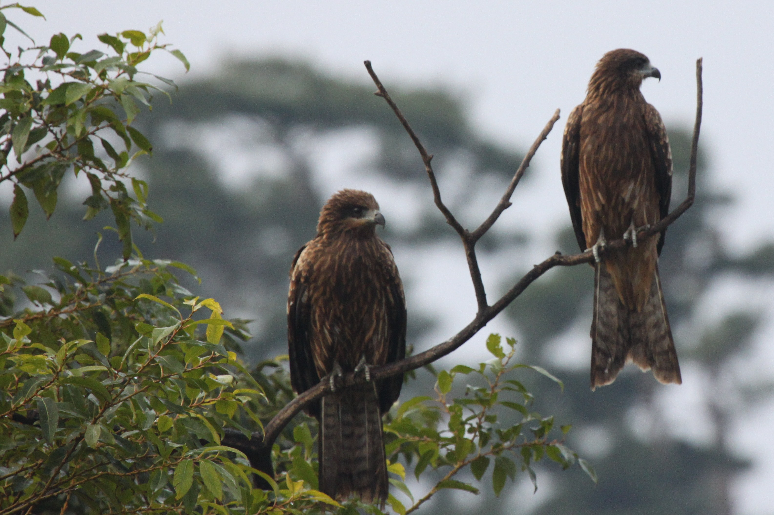 These birds were common throughout the South of Japan but I have no idea of their sub-species